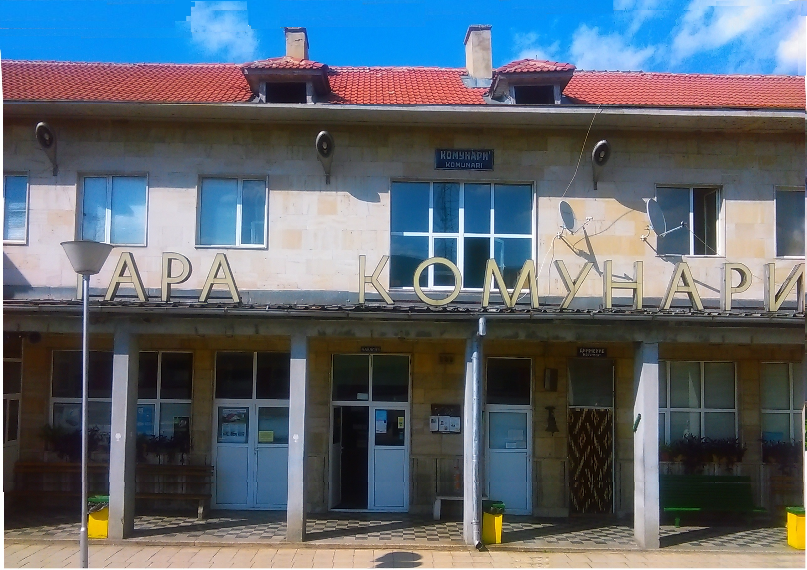 Komunari railway station